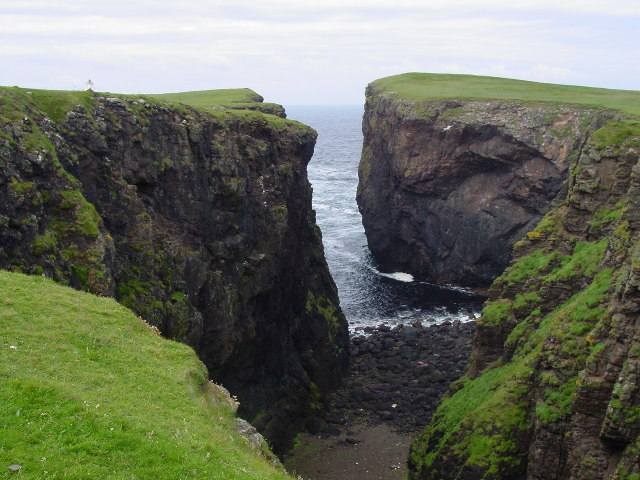 Calder's Geo north of Esha Ness Lighthouse. Calder's Geo, just north of Esha Ness Lighthouse is one of several deep inlets on this section of rugged coastline.